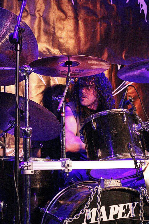 Goyo Hammerhead de Altar of SIn en directo